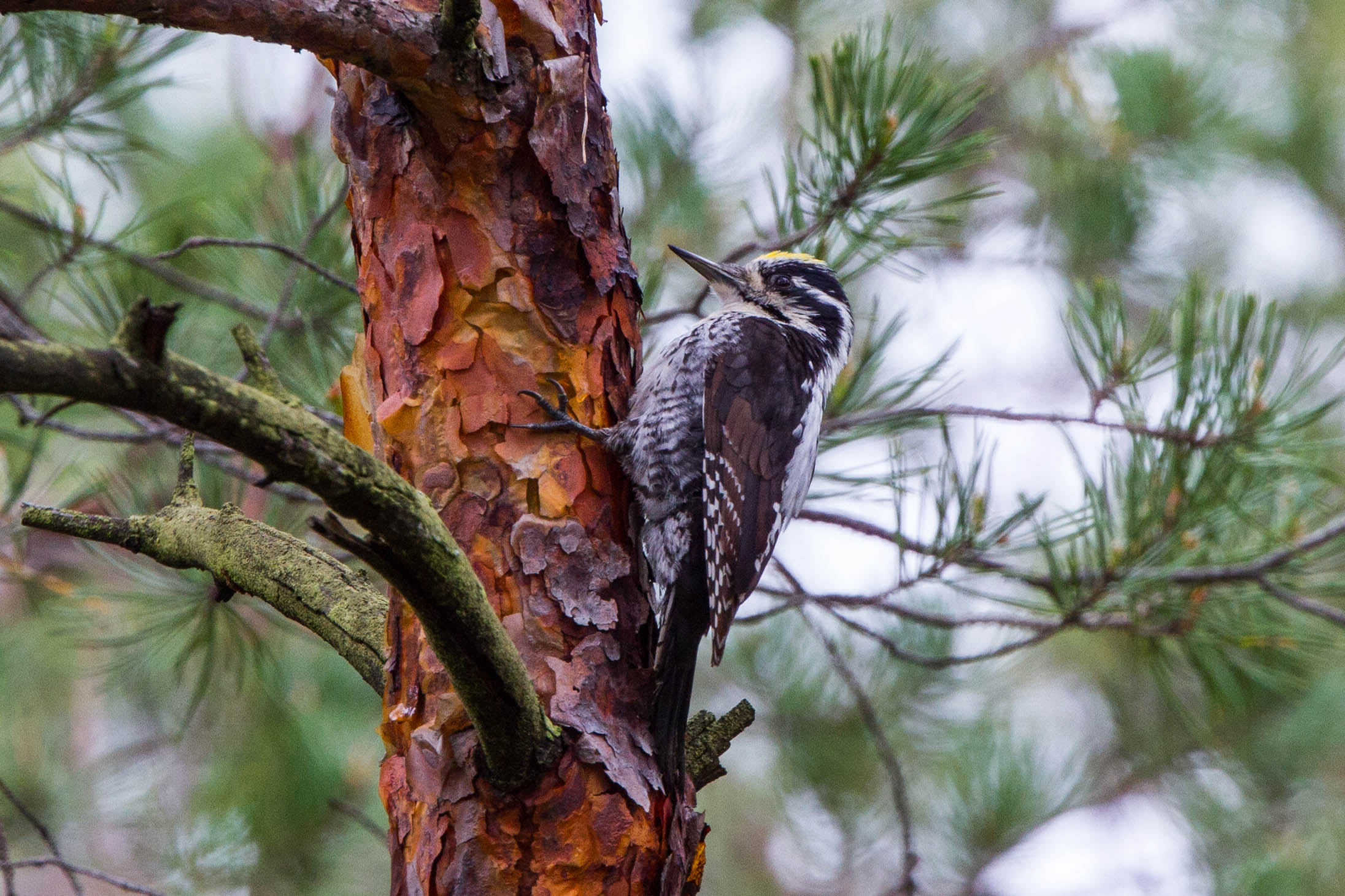 Eurasian Three-toed Woodpecker Picoides tridactylus, Belarus